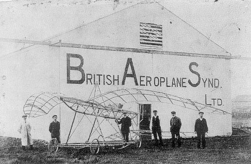 Humphreys Monoplane No. 1 built in 1909 by Jack Edmund Humphreys